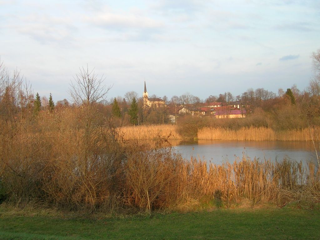 Chieming seen from the Pfeffersee